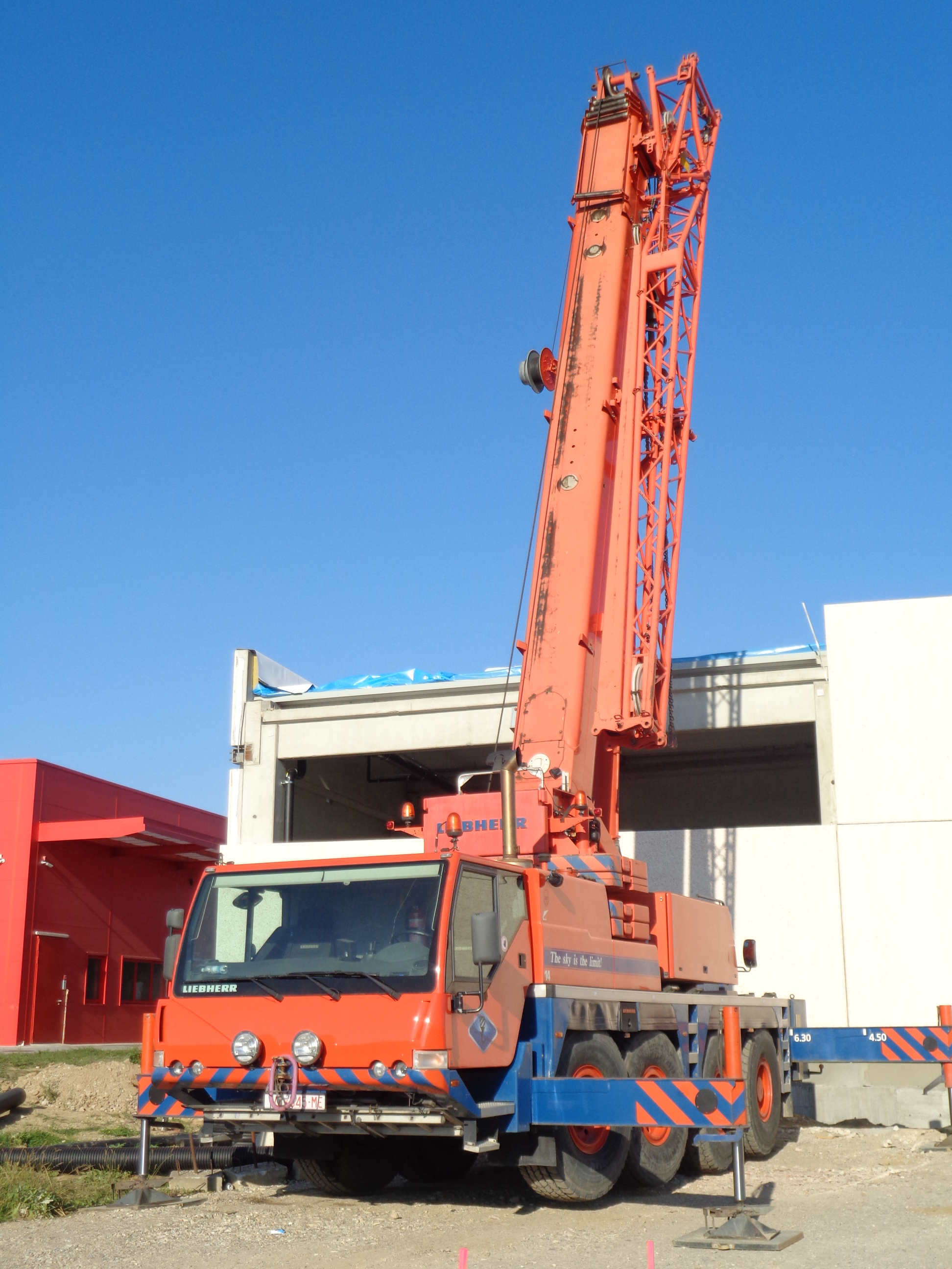 Liebherr crane truck in Čakovec, Međimurje County, Croatia